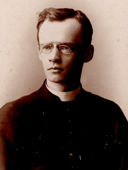 Joseph-Omer Plante, Auxiliary Bishop of Québec, Québec, Canada